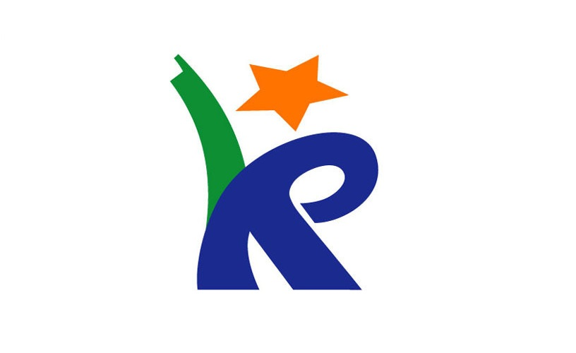 Flag of Konan Kochi